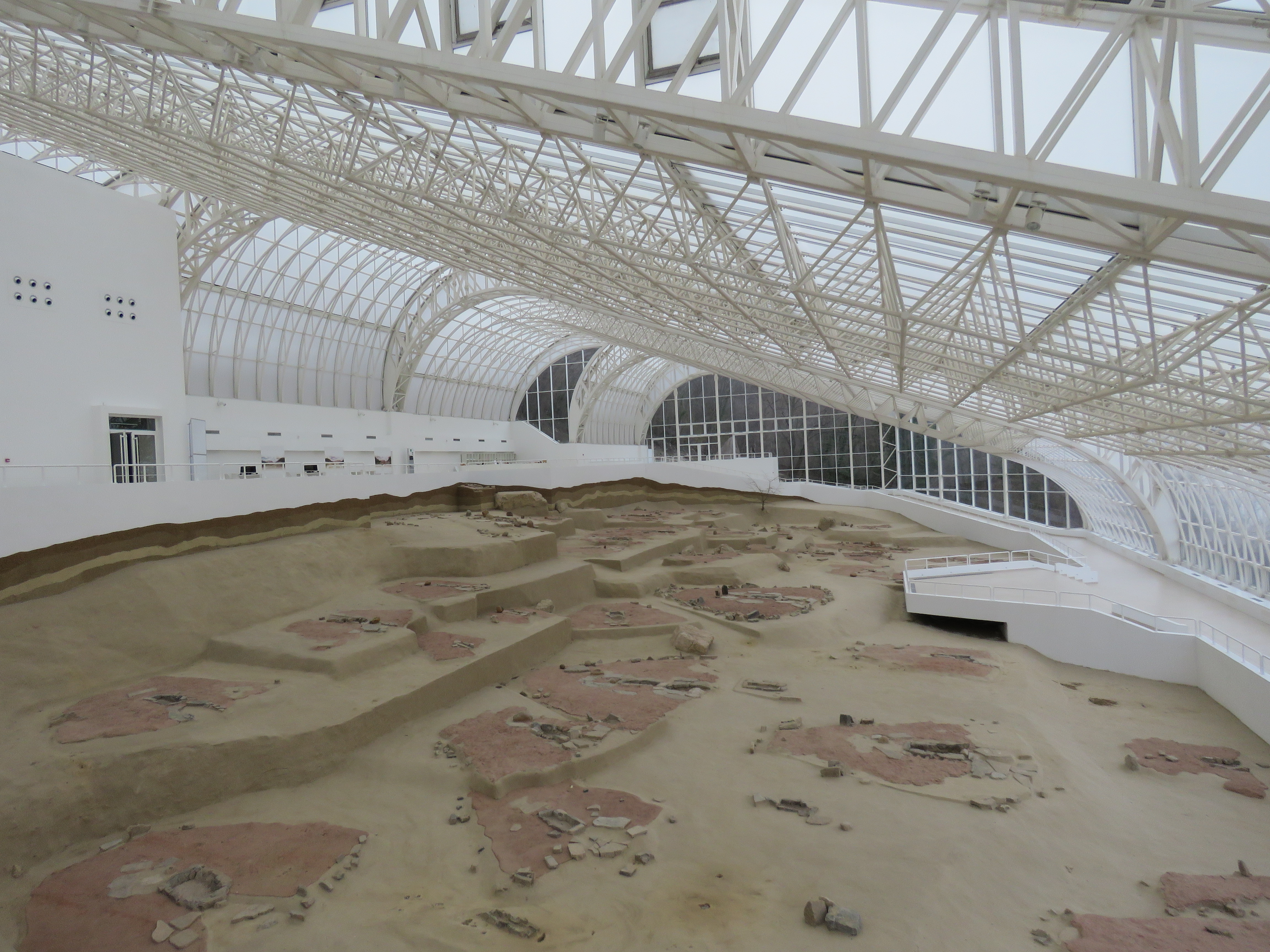 Museum Lepenski Vir